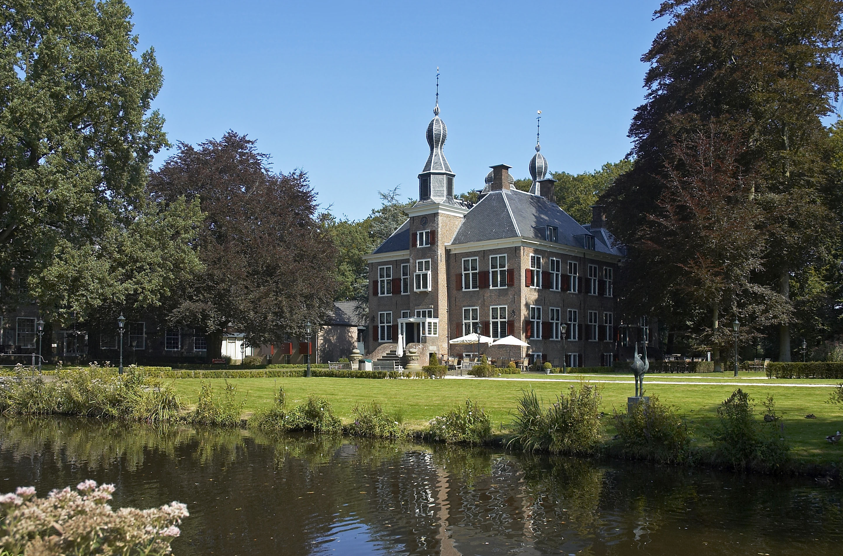 Castle 'De Essenburgh' in Hierden, The Netherlands